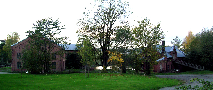 Eidsvoll Værk, Eidsvoll, Norway. Left: Pulp mill MAGO B, built 1894. Right: Engineering workshop and joiner's workshop, built 1909.